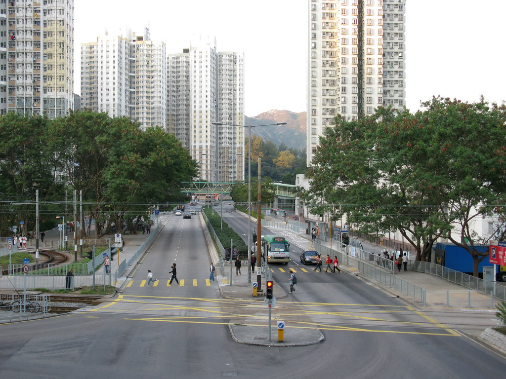 Ming Kum Road, near Po Tin Estate